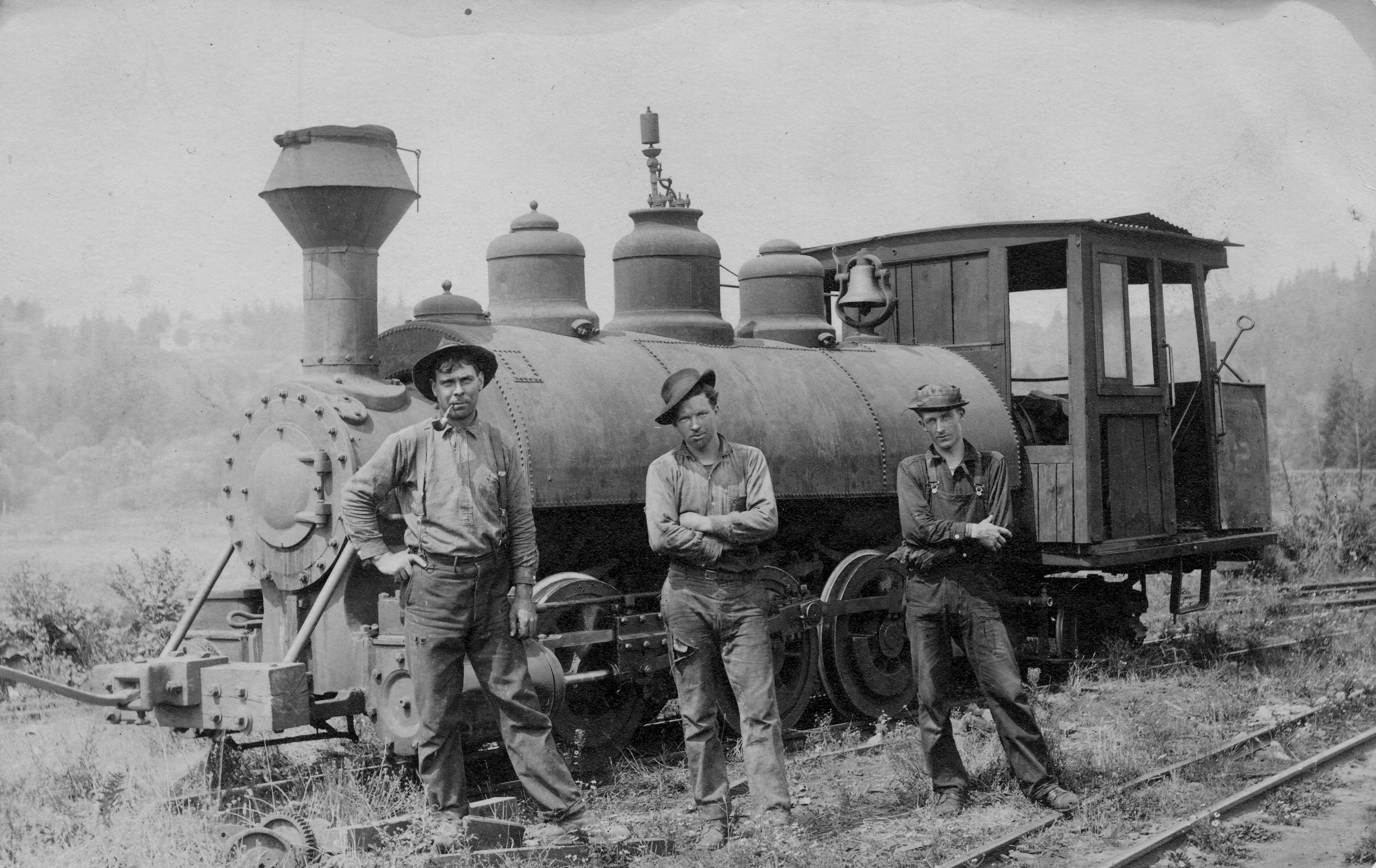 Oregon Iron and Steel Narrow Gauge Railroad. Pipe foundry was built in 1888 & was located near the outlet of Tryon Creek. Notes on back: 143 Blanken family; At pipe foundry. Gus Kiser, Hepple Shiply [Shipley], Herman Blanken.